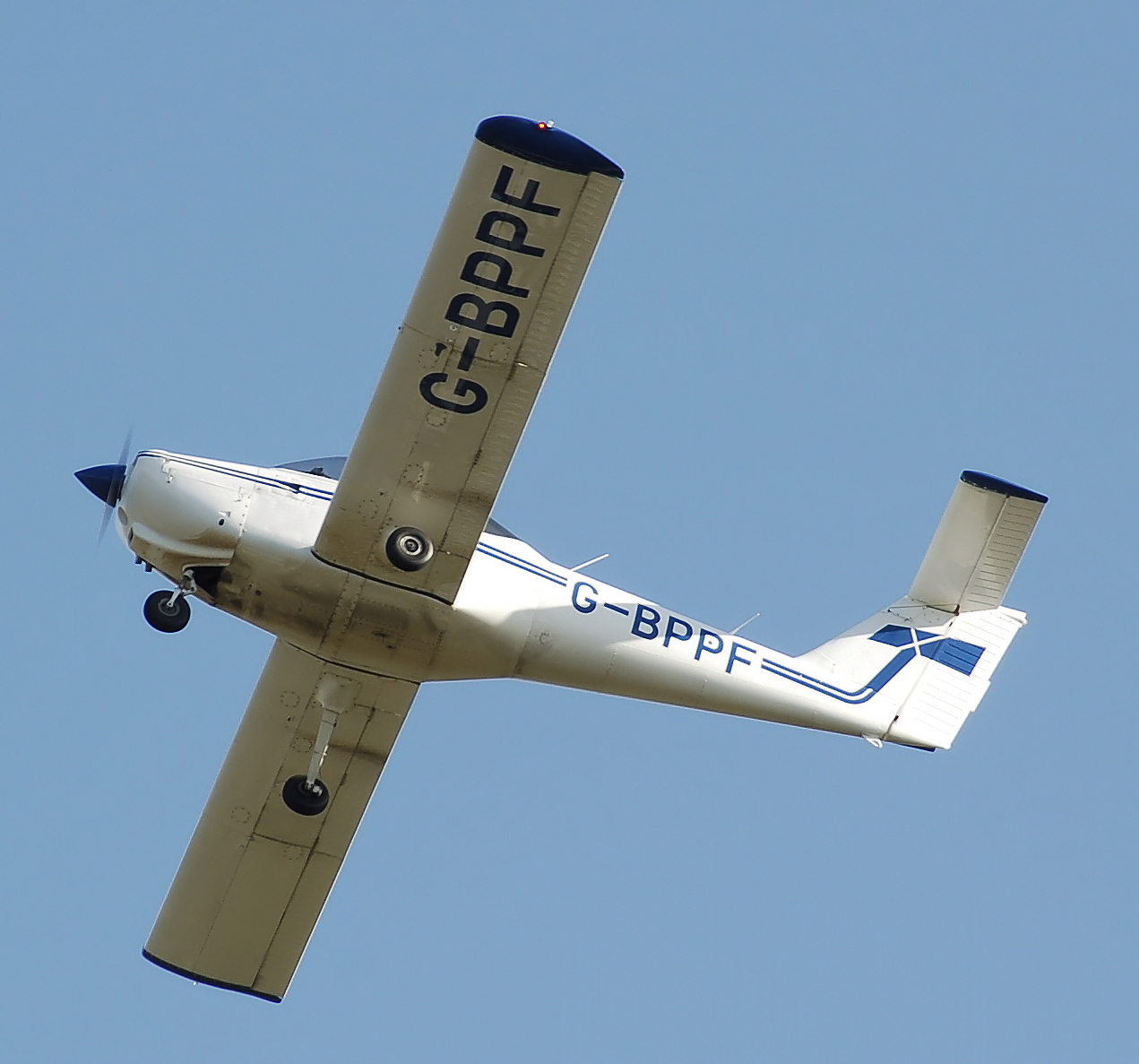 Piper PA-38-112 Tomahawk (G-BPPF) flies over Bristol International Airport, England Taken by Adrian Pingstone in April 2008 and released to the public domain.